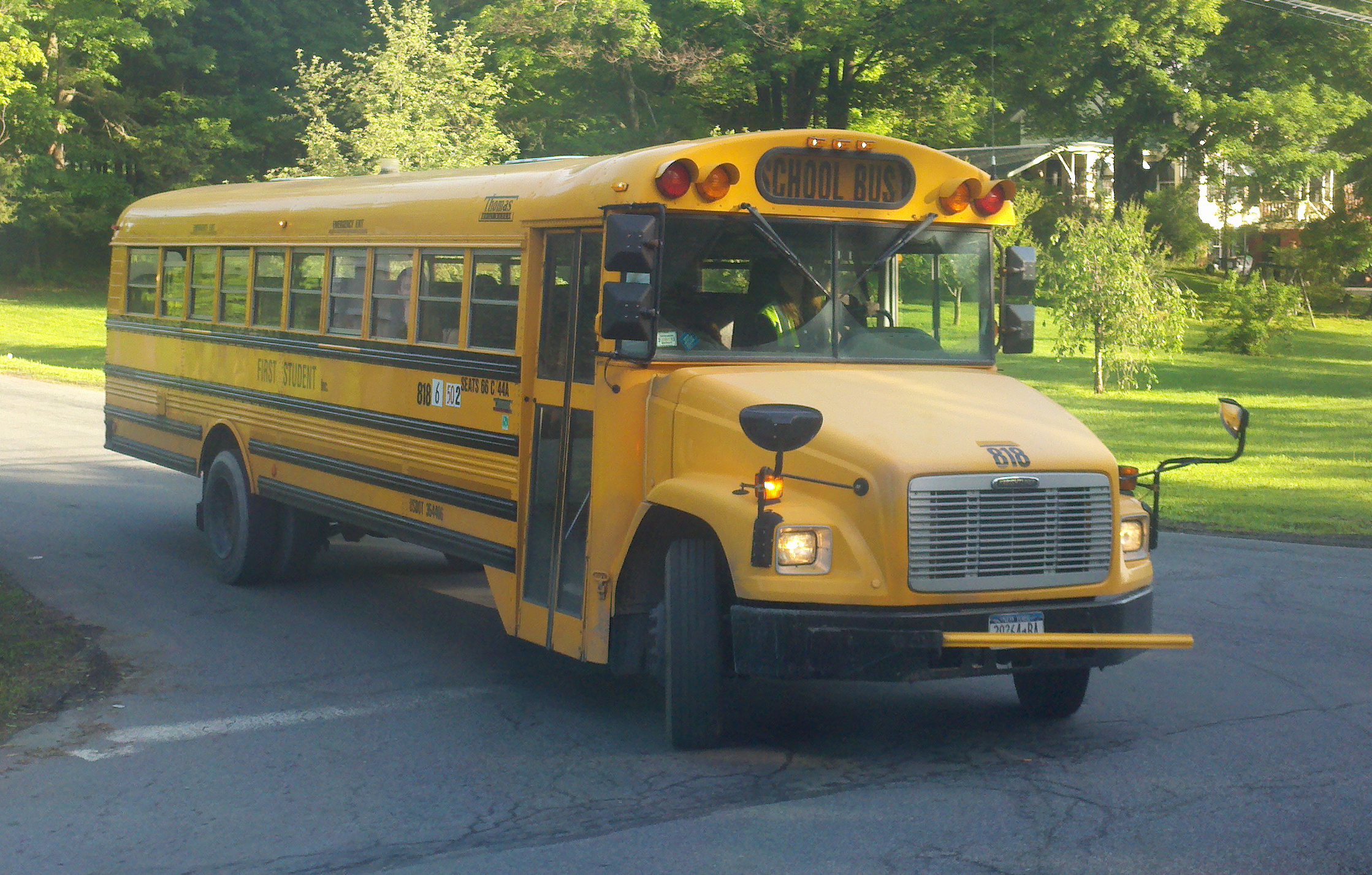 School Bus Equipped with Cross Arm